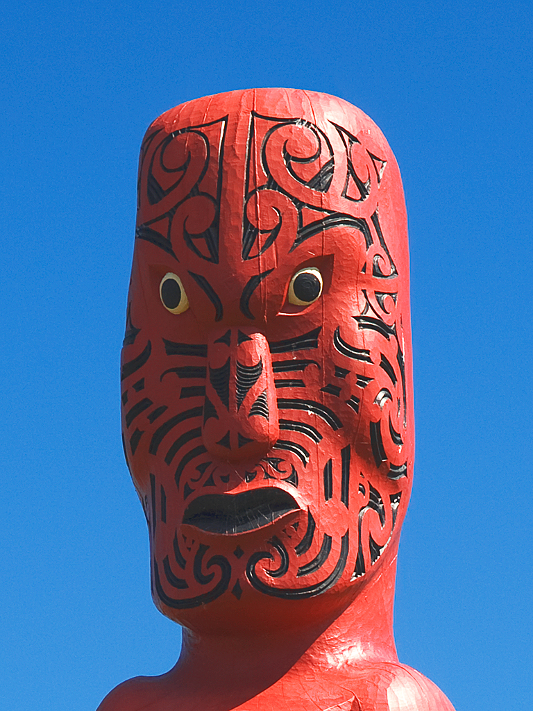 Maori sculpture, Toi's pa, Whakatane, Bay of Plenty Region, New Zealand